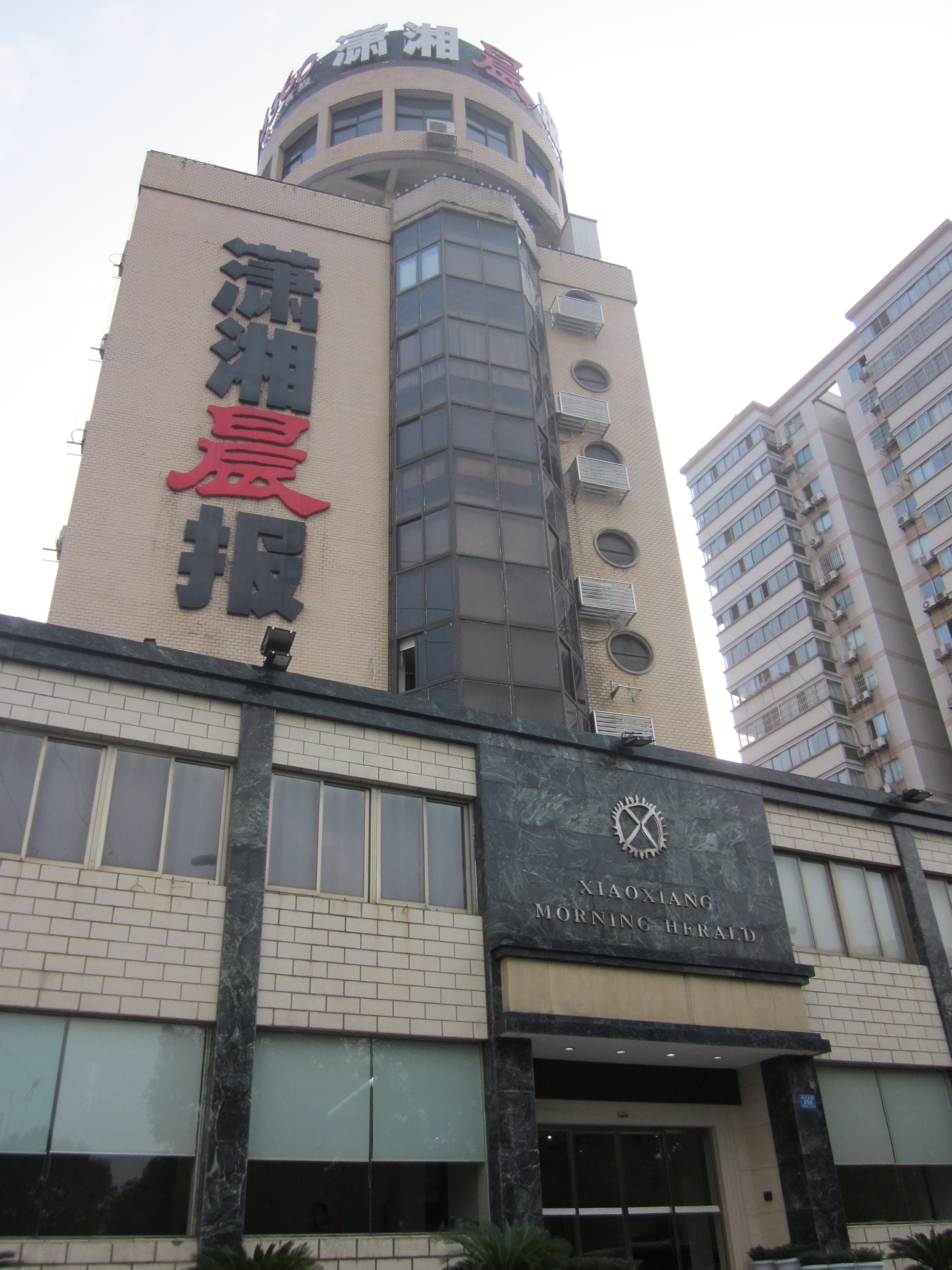 Xiaoxiang Morning Newspaper's office building.